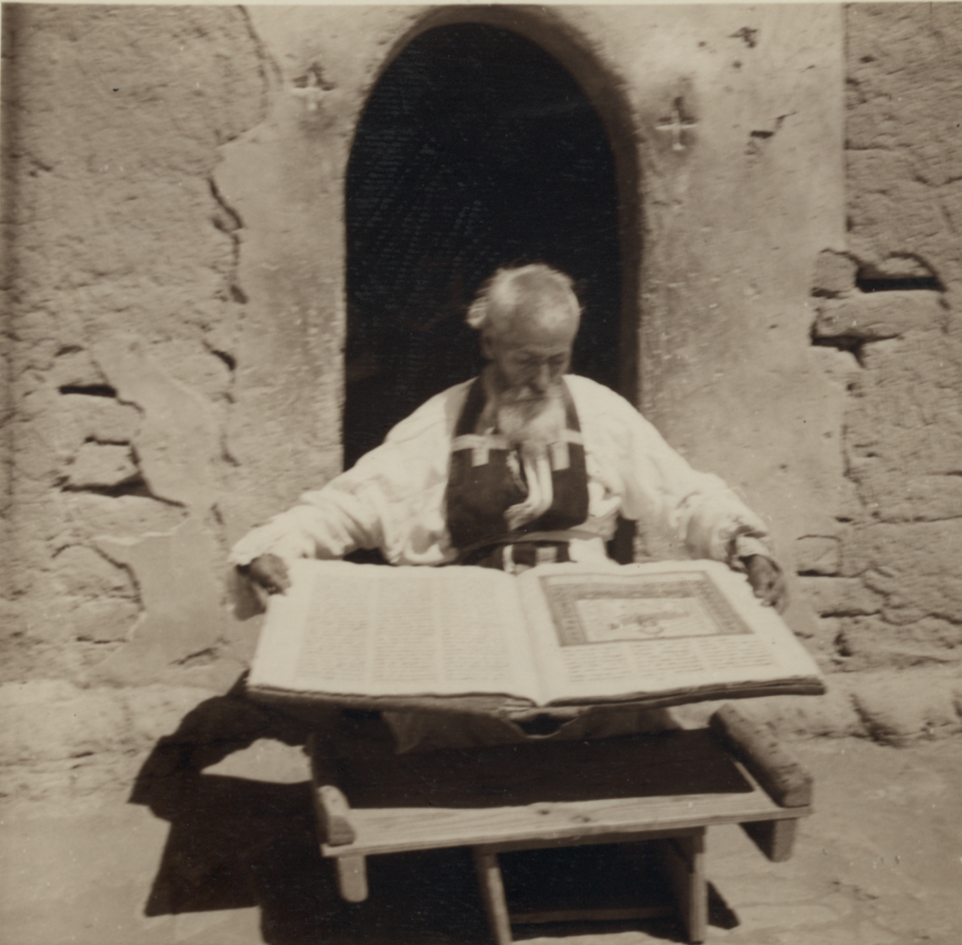 Assyrian refugees at Tell-Tamar and the Khabour River, July 21. Something of the twenty-seven villages built here by the League of Nations. The priest and his prized manuscript Bible. LC-DIG-ppmsca-17416-00118 (digital file from original on page 63, no. 2091)